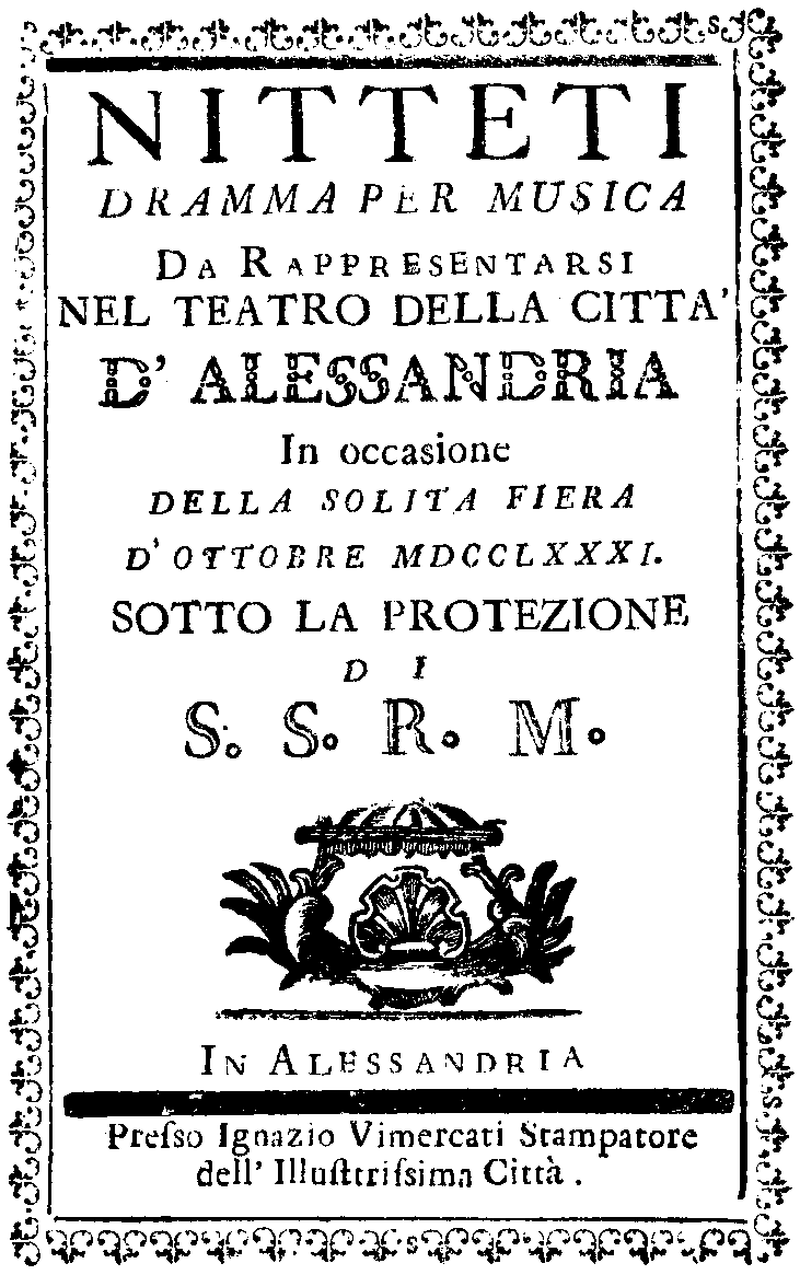 Carlo Monza - Nitteti - titlepage of the libretto - Alessandria 1781